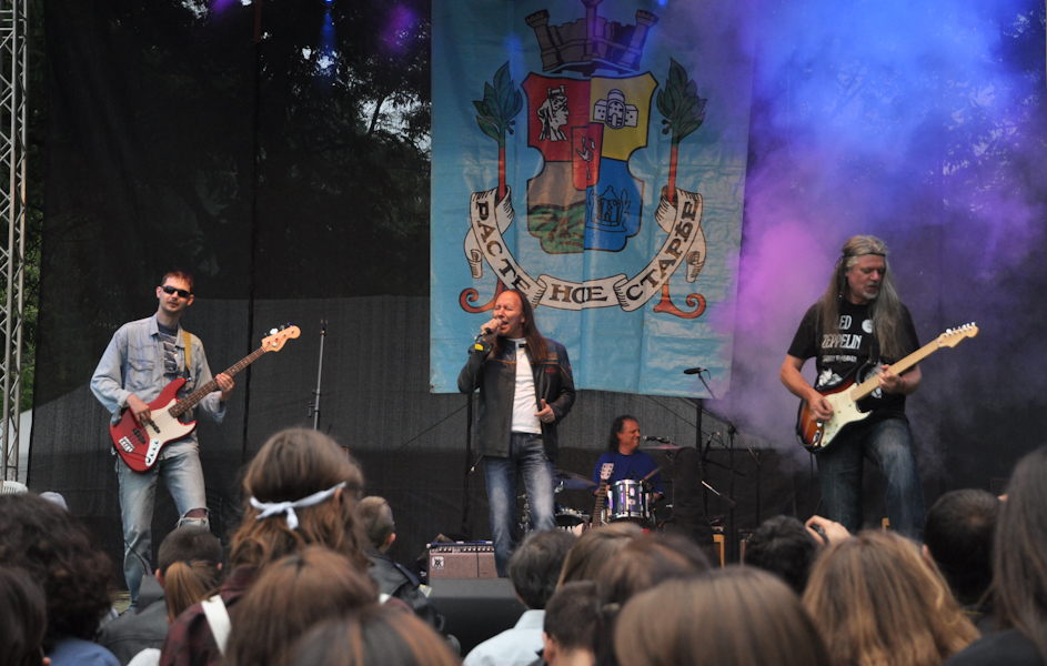 The Bulgarian rock band Monolith performing at "Flower for Gosho Fest" 2011, South park, Sofia.